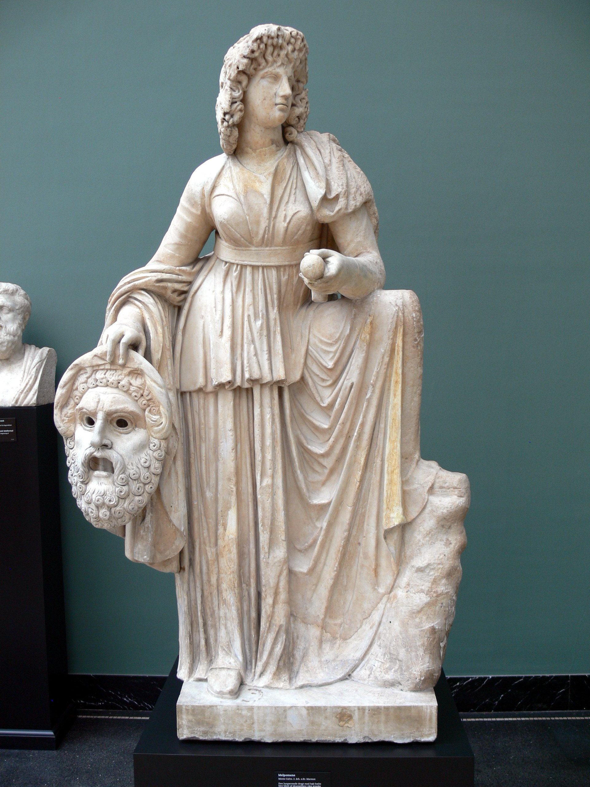 Ny Carlsberg Glyptothek, Copenhagen. Statue of Melpomene, muse of tragedy (2nd century AD) from Monte Calvo. The muse is shown in a long-sleeved garment with a high belt, clothing that was associated with tragic actors. Her wreath of vines and grapes alludes to Dionysus, the god of the theatre. Item number 1565.